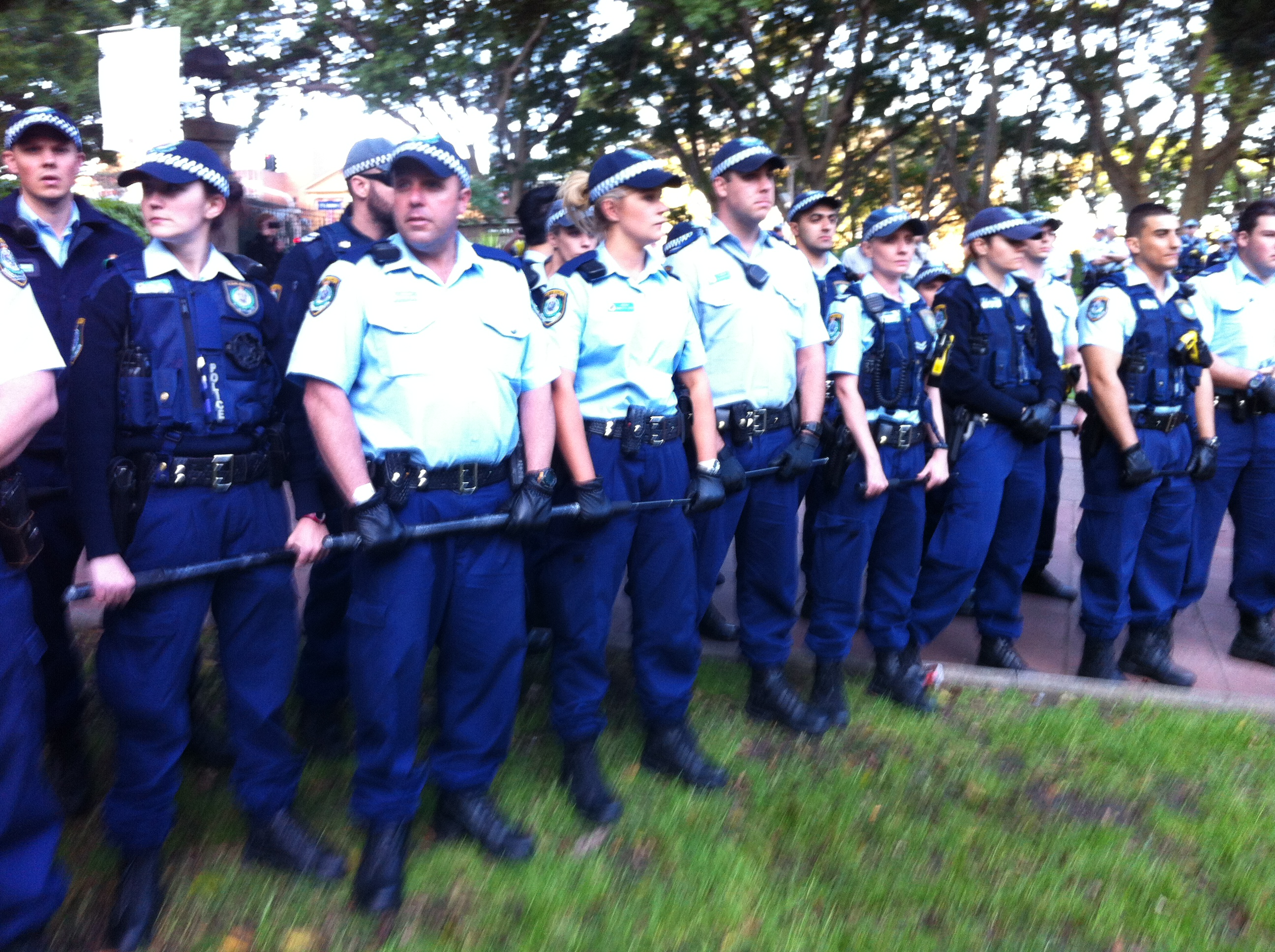 Police form a human barricade